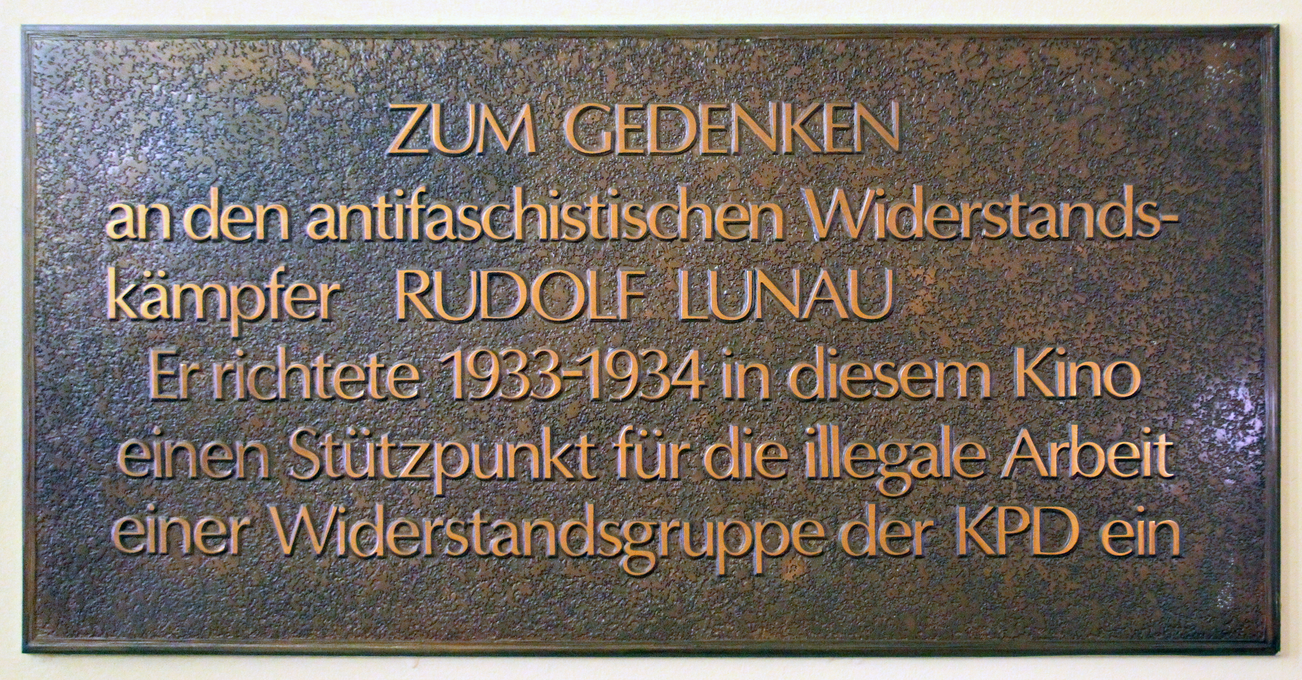 Memorial plaque, Rudolf Lunau, Rosa-Luxemburg-Straße 30, Berlin-Mitte, Germany